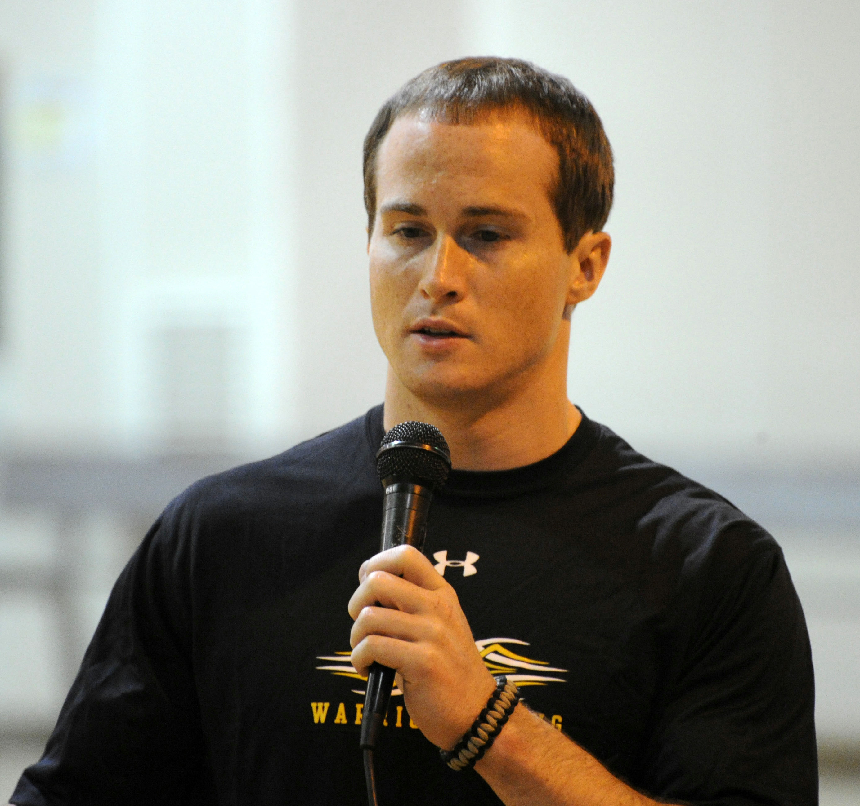 U.S. Olympic Gymnast Paul Hamm answers U.S. Soldiers' questions during a meet and greet at Forward Operating Base Warhorse in the Diyala province of Iraq, Aug. 10, 2010. U.S. Olympic athletes visited Soldiers in Iraq as part of the Olympic Hero Tour sponsored by the Moral, Welfare and Recreation department. (U.S. Army photo by Sgt. Brandon D. Bolick/Released) (original text)